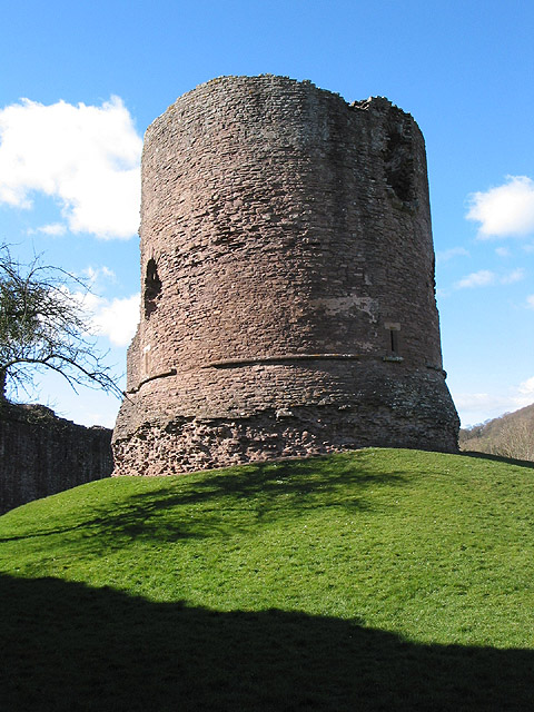 Great Tower, Skenfrith Castle This is a circular keep tower - similar ones can be found at Bronllys and Tretower. This was the main stronghold and residence. An external timber staircase would have led to the main chamber on the first floor and an internal stone spiral staircase led to the rooms above and also to the battlements. It was built around 1230.